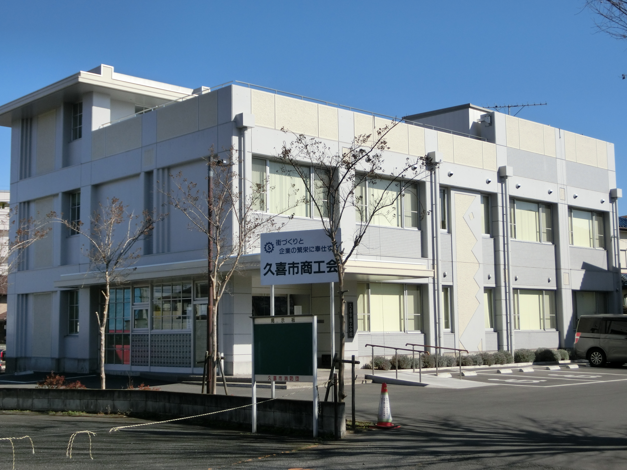 Kuki Society of Commerce and Industry Headquarters